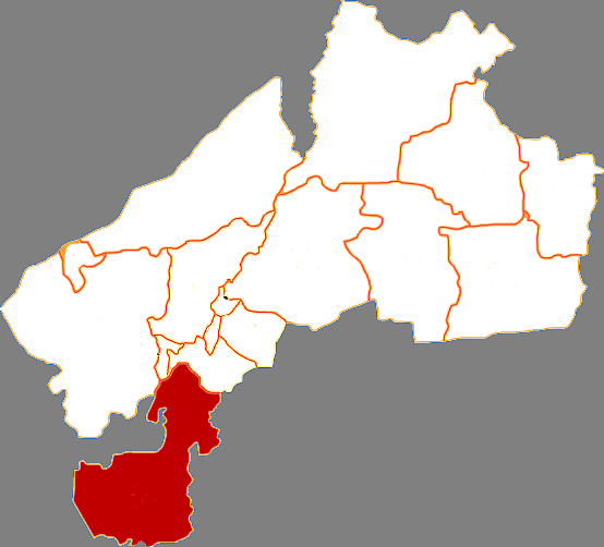 Location of Tailai County in Qiqihar City, China